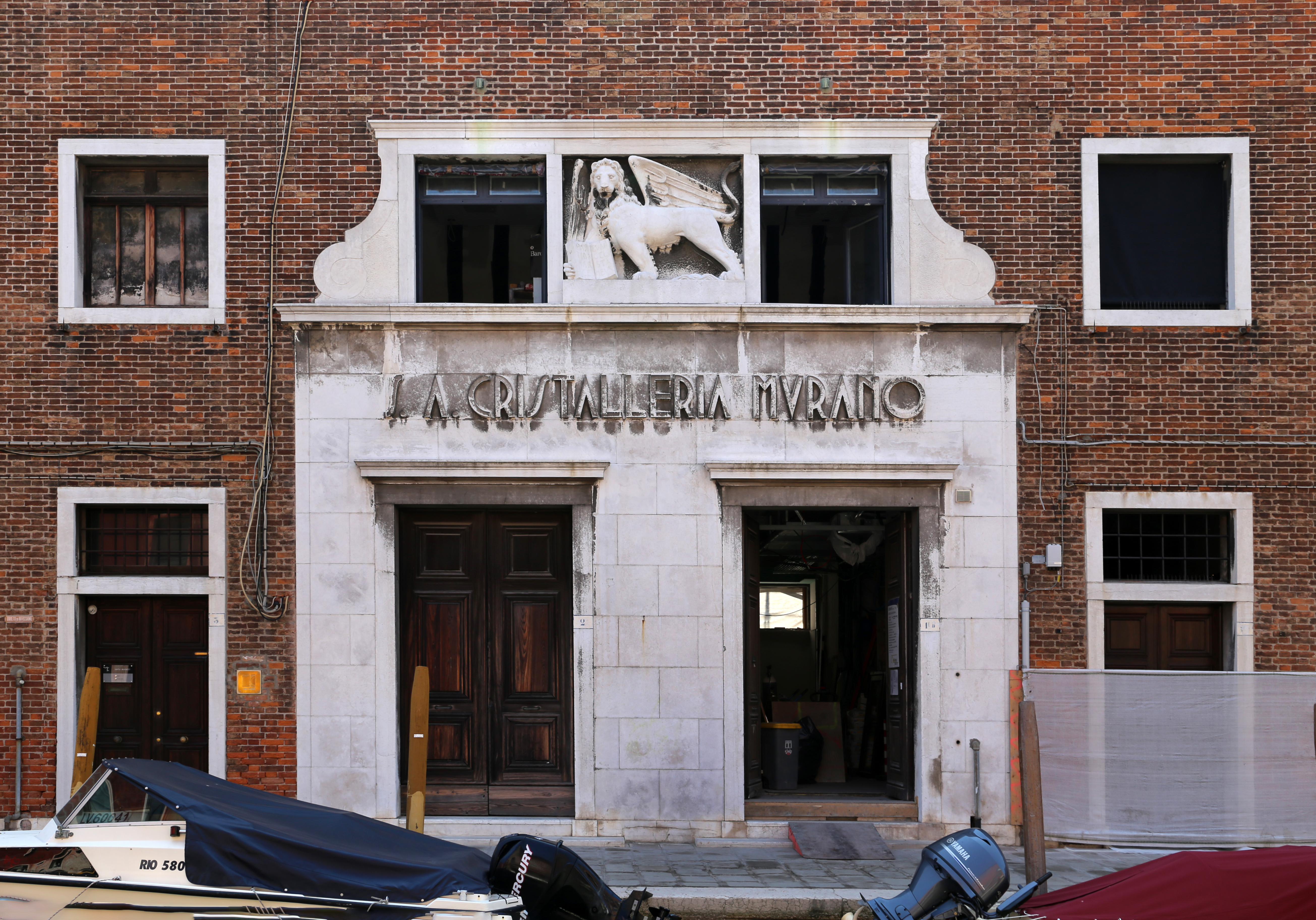 Murano, Venice